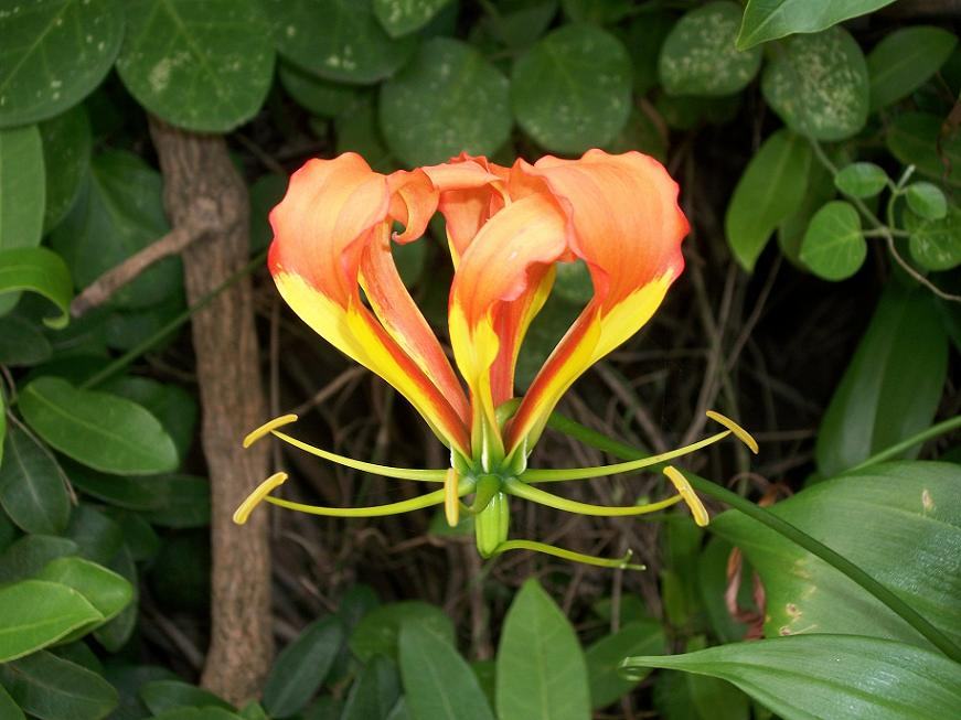 Gloriosa superba from Amanzimtoti, South Africa.